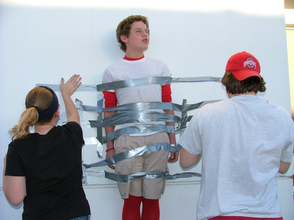 Unusual use of duct tape a a party